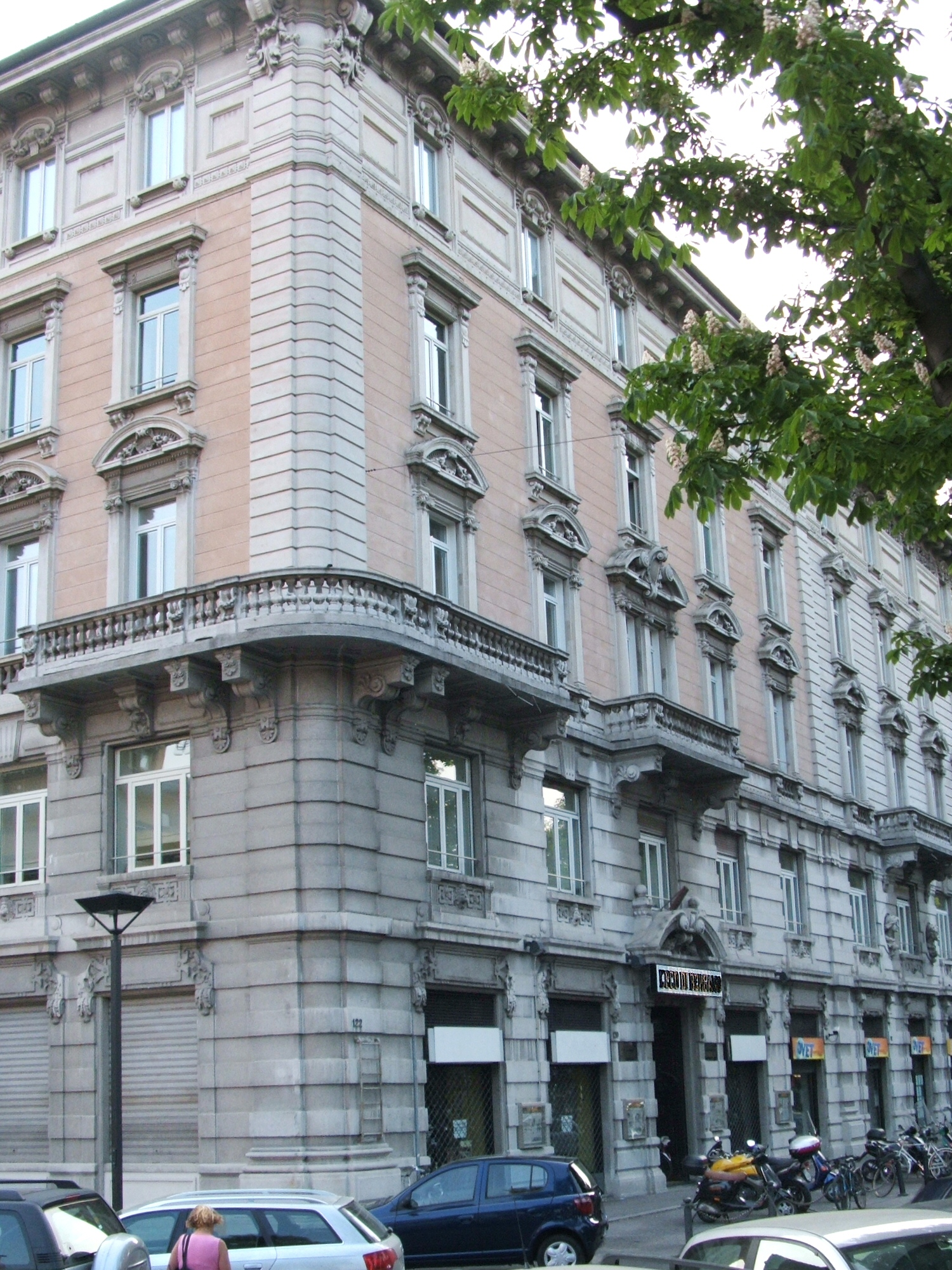 Bergamo - Lombardy - Italy. Headquarter of newspaper L'Eco di Bergamo.